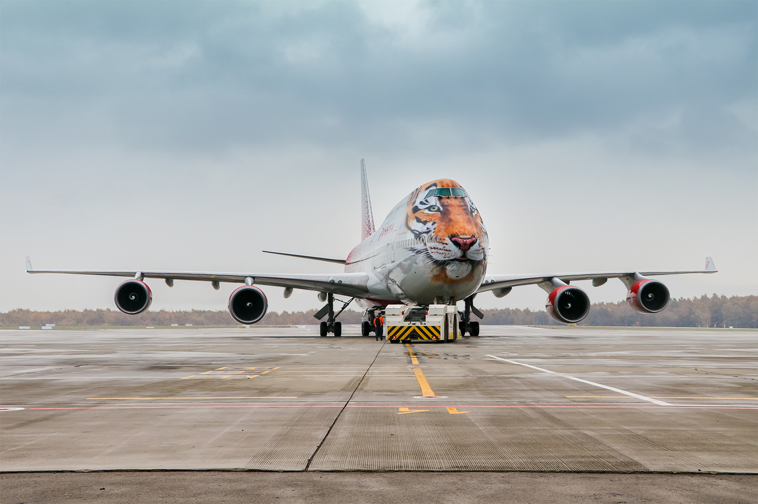 Boeing 747 of RossiyaAirlines in Tigrolet livery dedicated to Siberian tiger